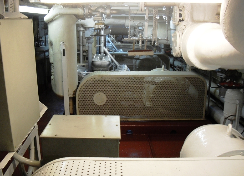 Kälteverdichter und Kondensatoren im Hintergrund